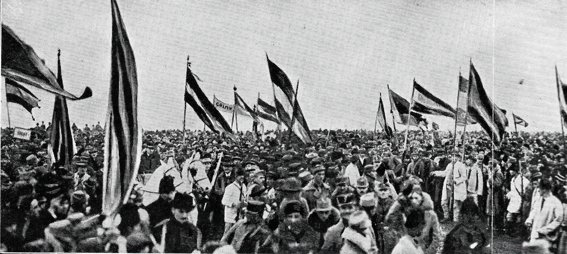 Great Transylvanian Romanian Assembly at Alba Iulia (December 1st 1918).